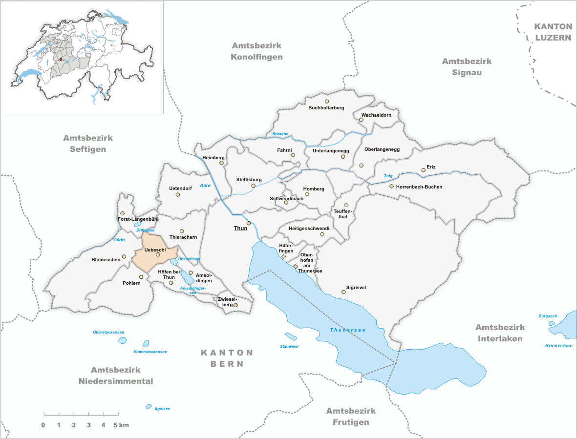 Municipality Uebeschi